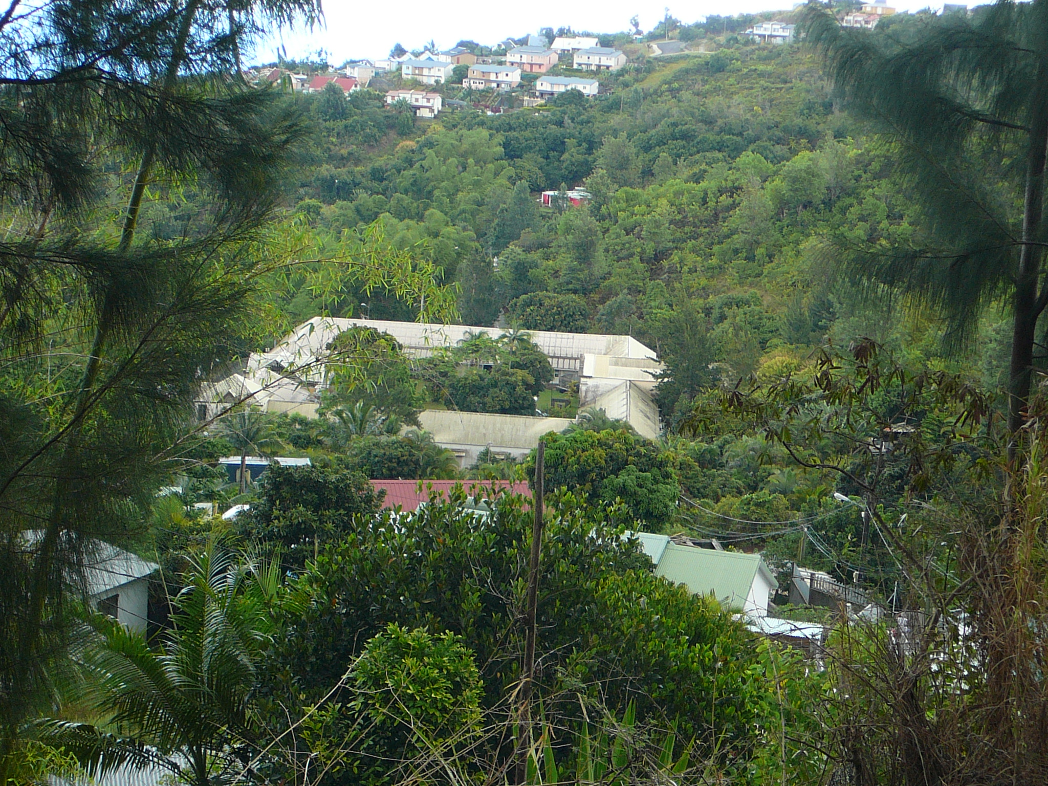 Former leper treatment center in St Bernard (Réunion)